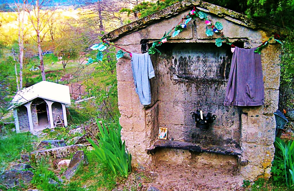 StVarvaraChapel ELeshnitza Bulgaria